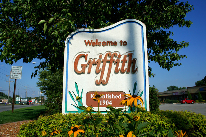 Welcome sign for Griffith